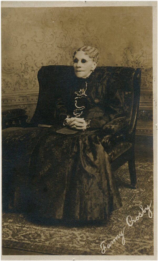 Photograph of Fanny Crosby (d. 1915) seated